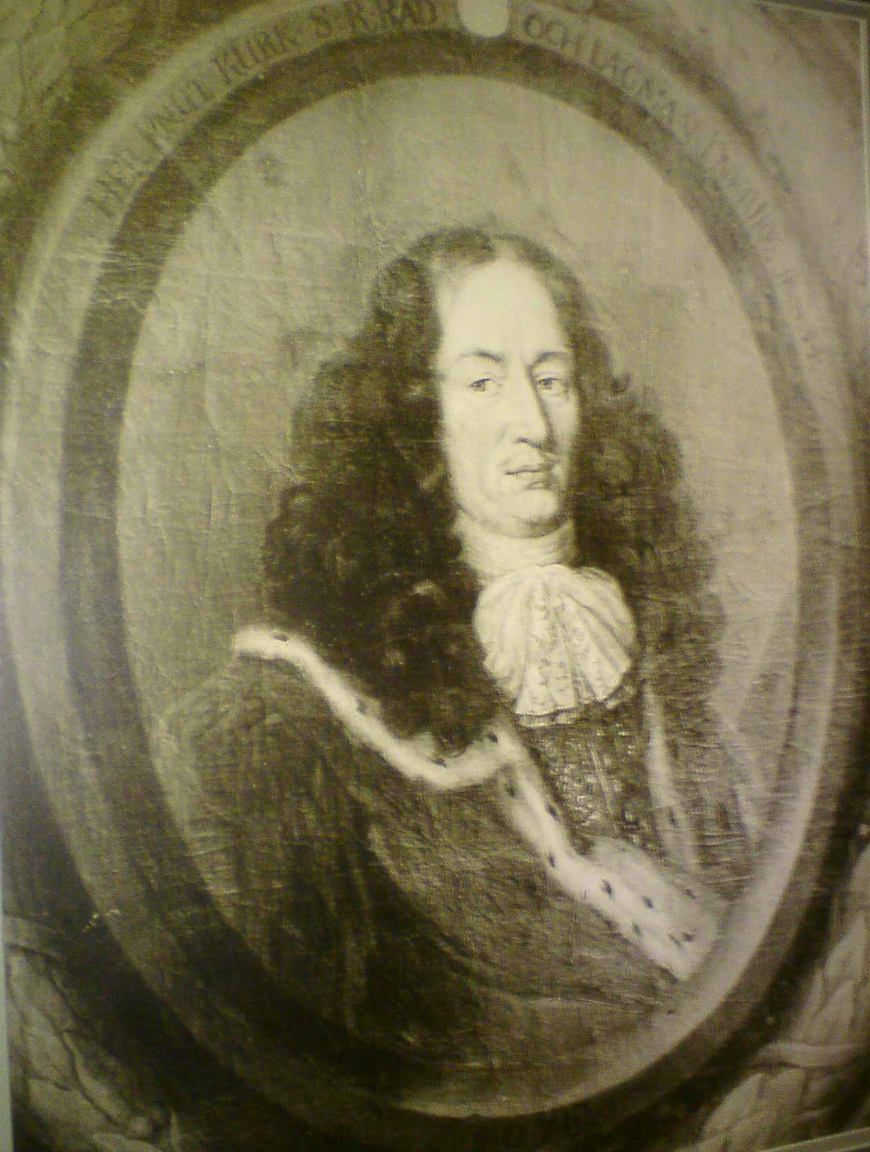 Knut Kurck